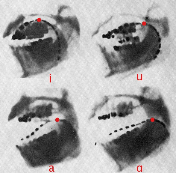 X-ray photographs of the tongue positions of Jones' cardinal vowels [i, u, a, ɑ] (adapted from Jones 1972: frontispiece). The photographs are of Jones' mouth during vowel production. Jones writes: "A chain of small lead plates strung together was placed on the tongue to show its outline. The large dot added on each photograph marks the highest point of the tongue. The cross is a point of reference (near the end of the hard palate).... The photographs were taken by Dr. H. Trevelyan George in St. Bartholomew's Hospital, London, in January, 1917". And on p. 32: "They were taken ... by Dr. E. A. Meyer's method of placing a very thin metal chain on the tongue. They were first published in the Proceedings of the Royal Institution, Vol. XXII, Part 1, Oct., 1919. The originals may be seen in the Department of Phonetics, University College, London, W.C.1." For this image, Jones' large dots are overlaid with large red dots to aid the viewer. Jones' photographs are in the public domain in the United States.